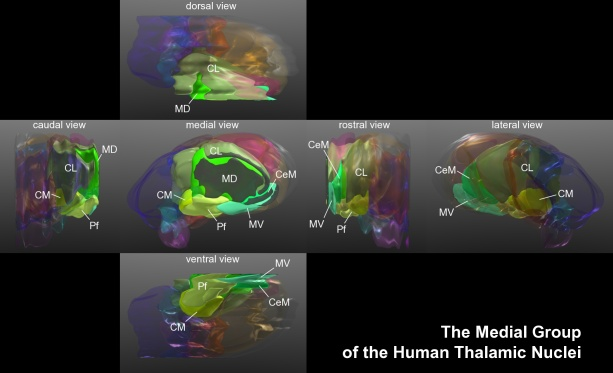 Human Thalamic Nuclei (Medial Group)